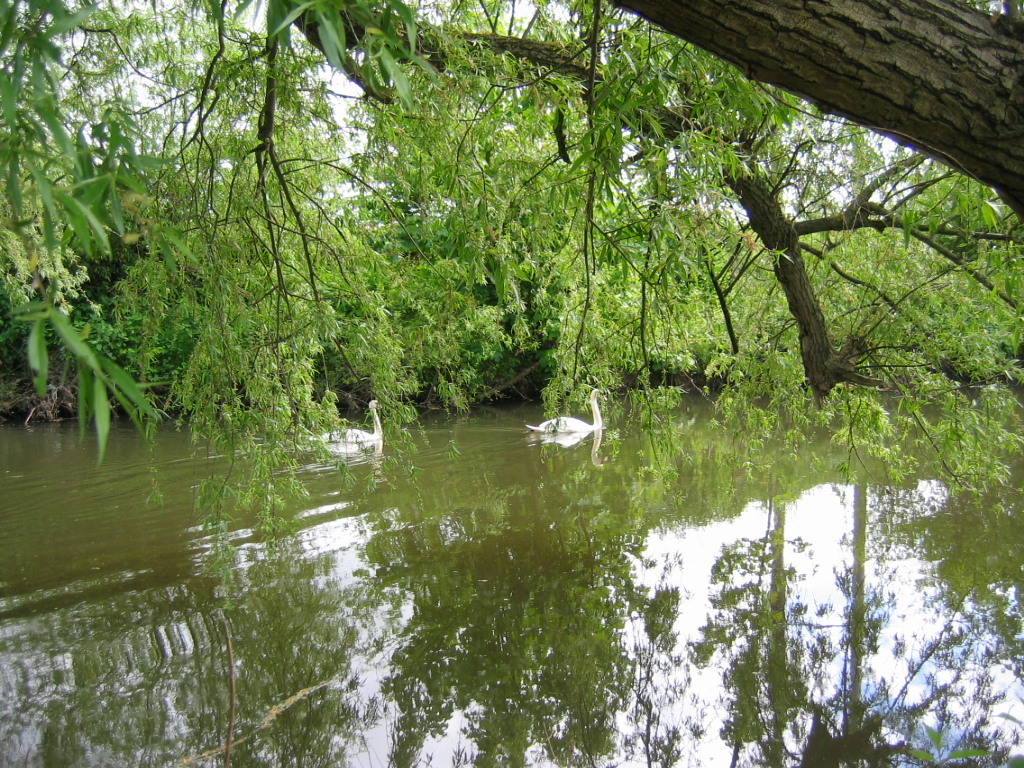 River Esk, East Lothian, Scotland